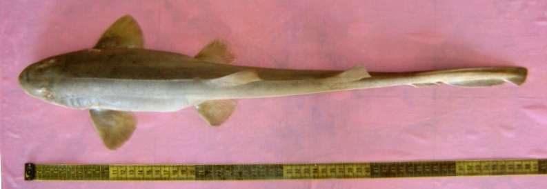 Arabian carpetshark (Chiloscyllium arabicum) from Pakistan